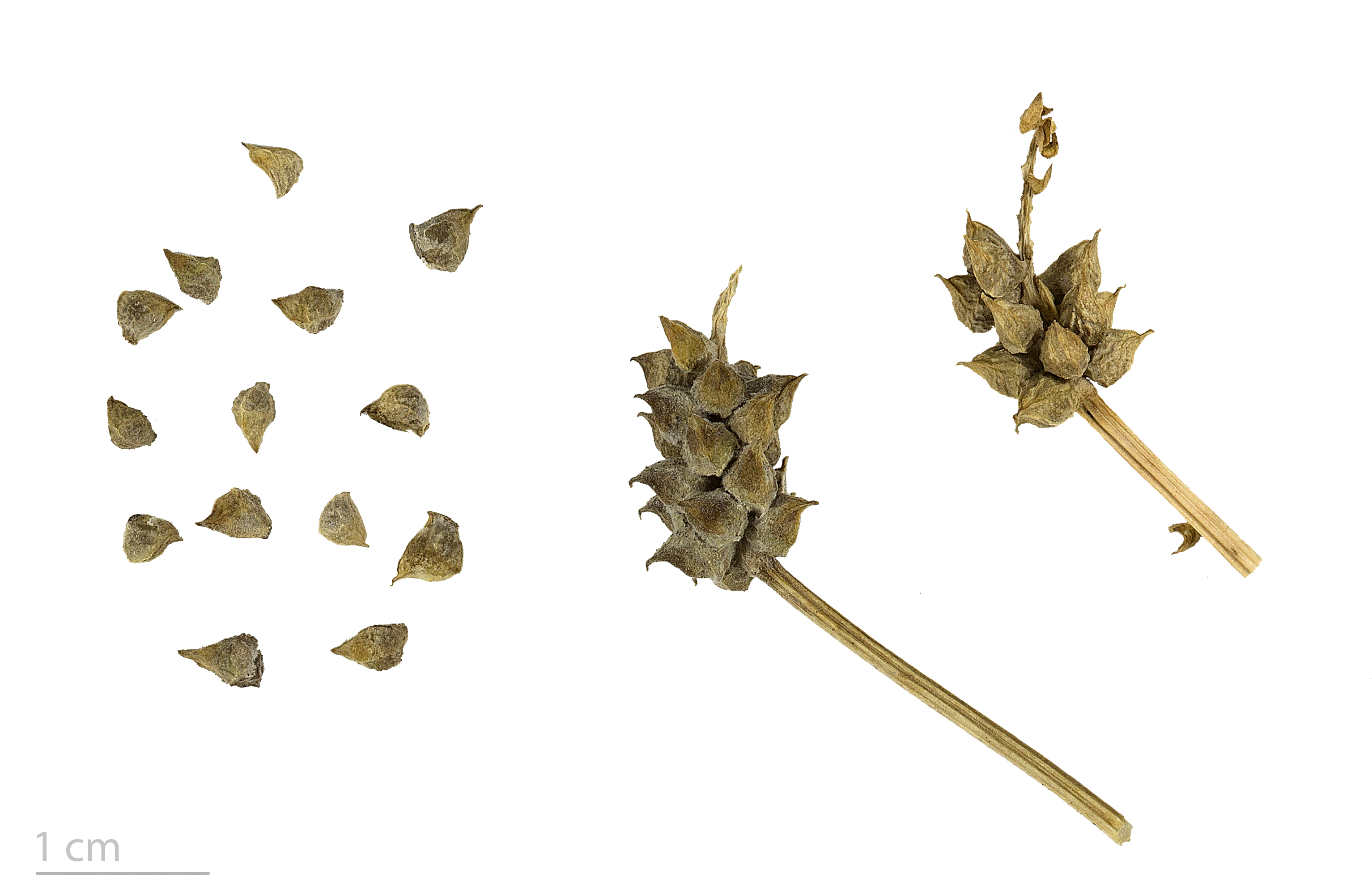 Adonis aestivalis, summer pheasant's-eye, seeds